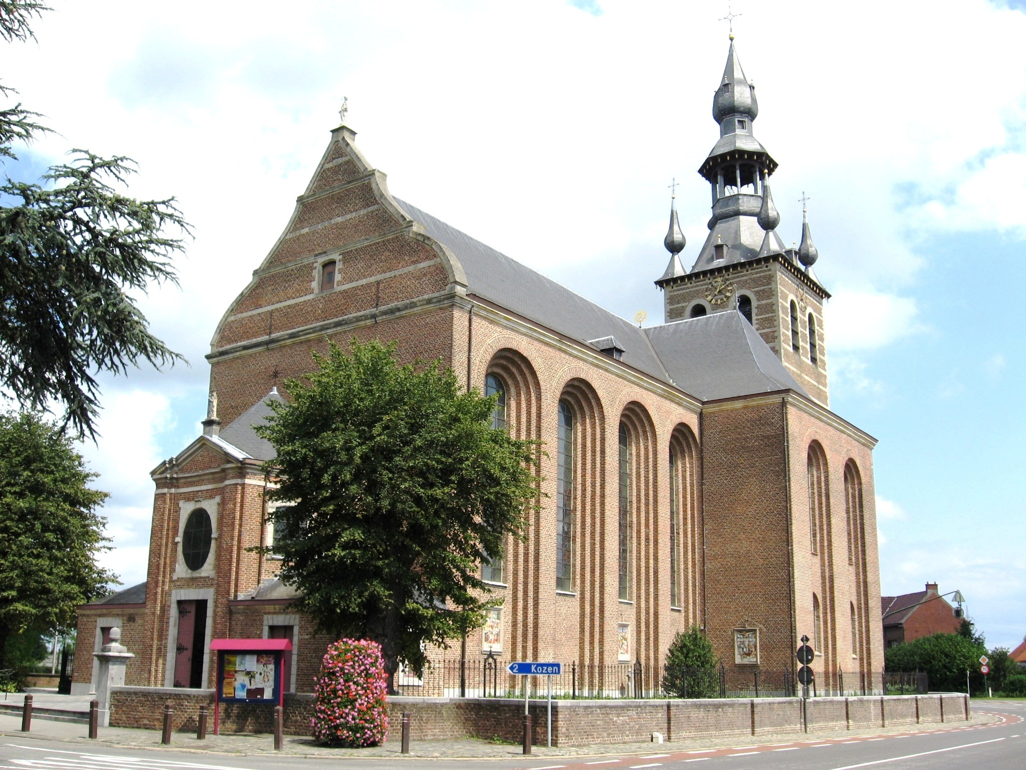 Basilica of Our Lady in Sint-Truiden (Kortenbos), Limburg, Belgium